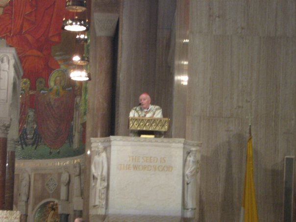 Cardinal McCarrick's Final Homily as Cardinal Archbishop of Washington at the National Shrine